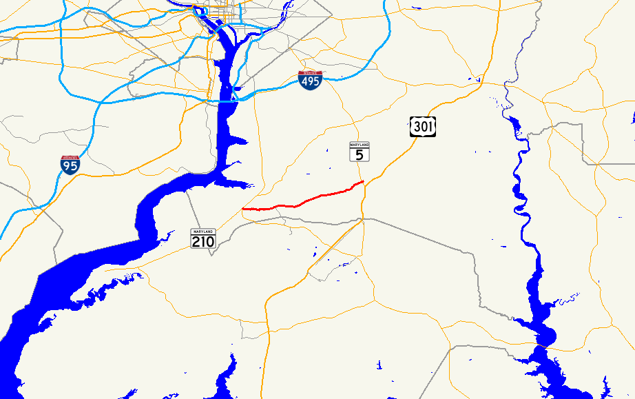 Map of Maryland 373